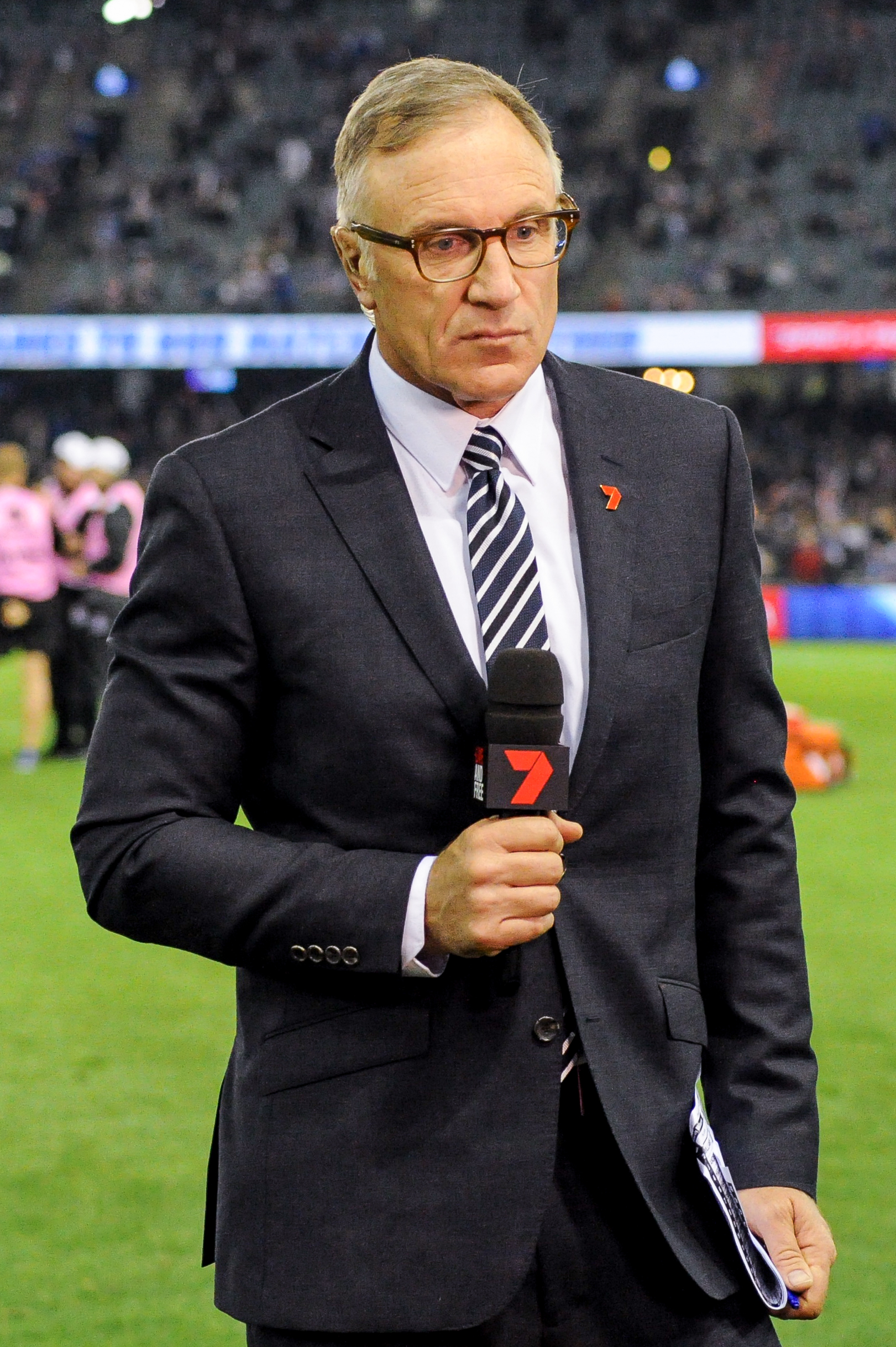 Tim Watson during the AFL round thirteen match between North Melbourne and St Kilda on 16 June 2017 at Etihad Stadium in Melbourne, Victoria.